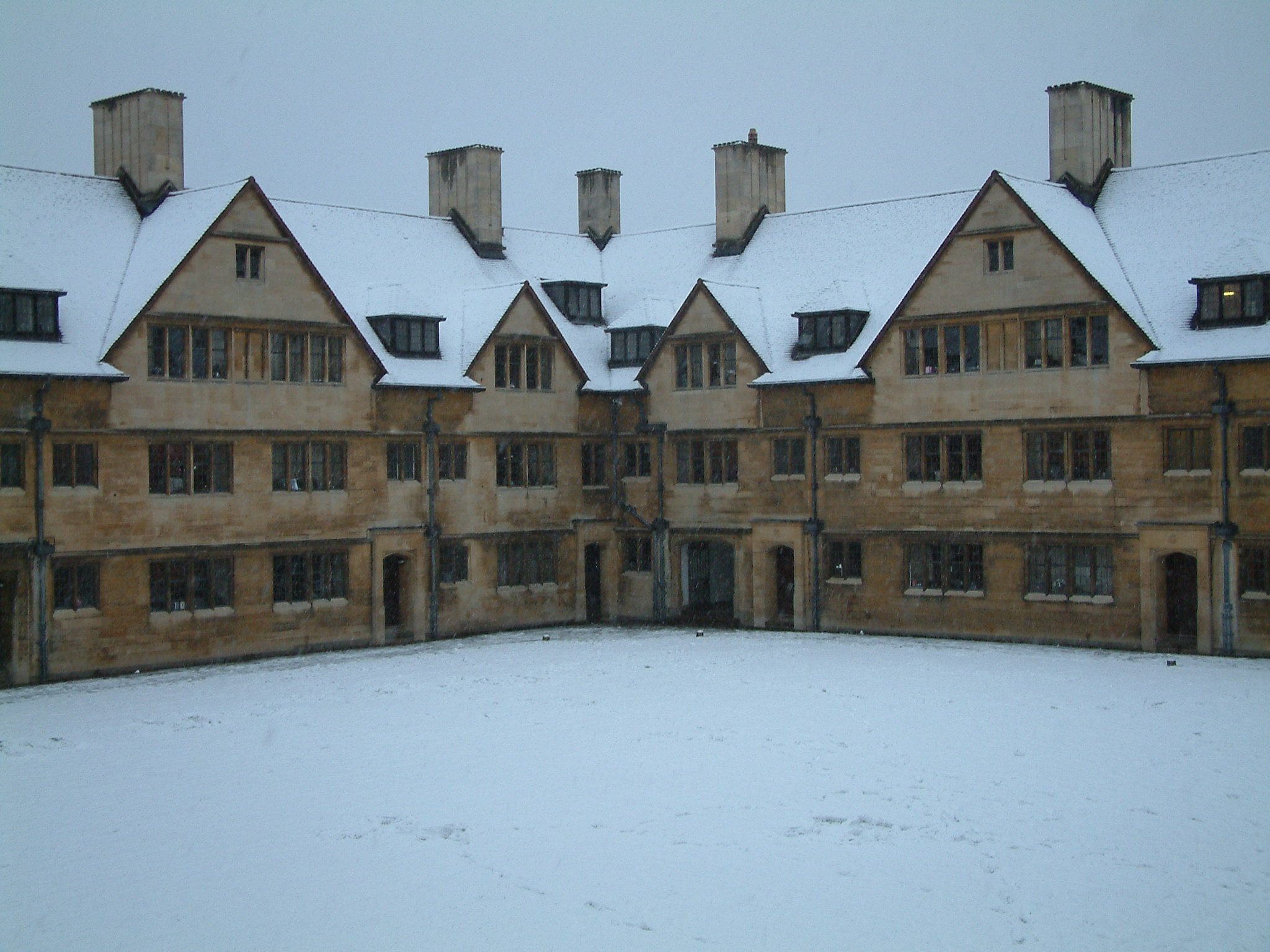 Part of Wills Hall Old Quad, University of Bristol, England, in snow